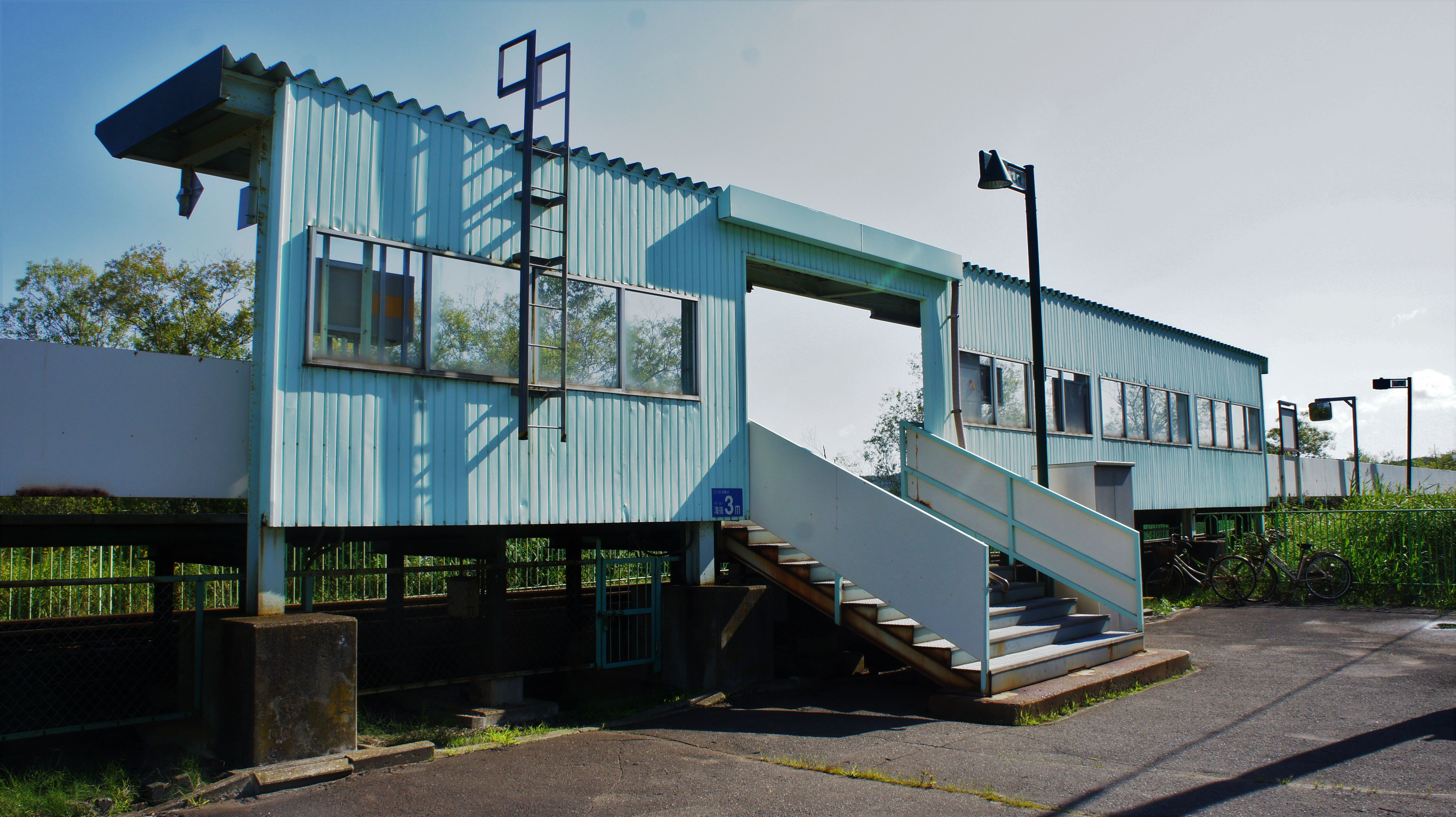 Gateway of JR Nemuro-Main-Line Musa Station